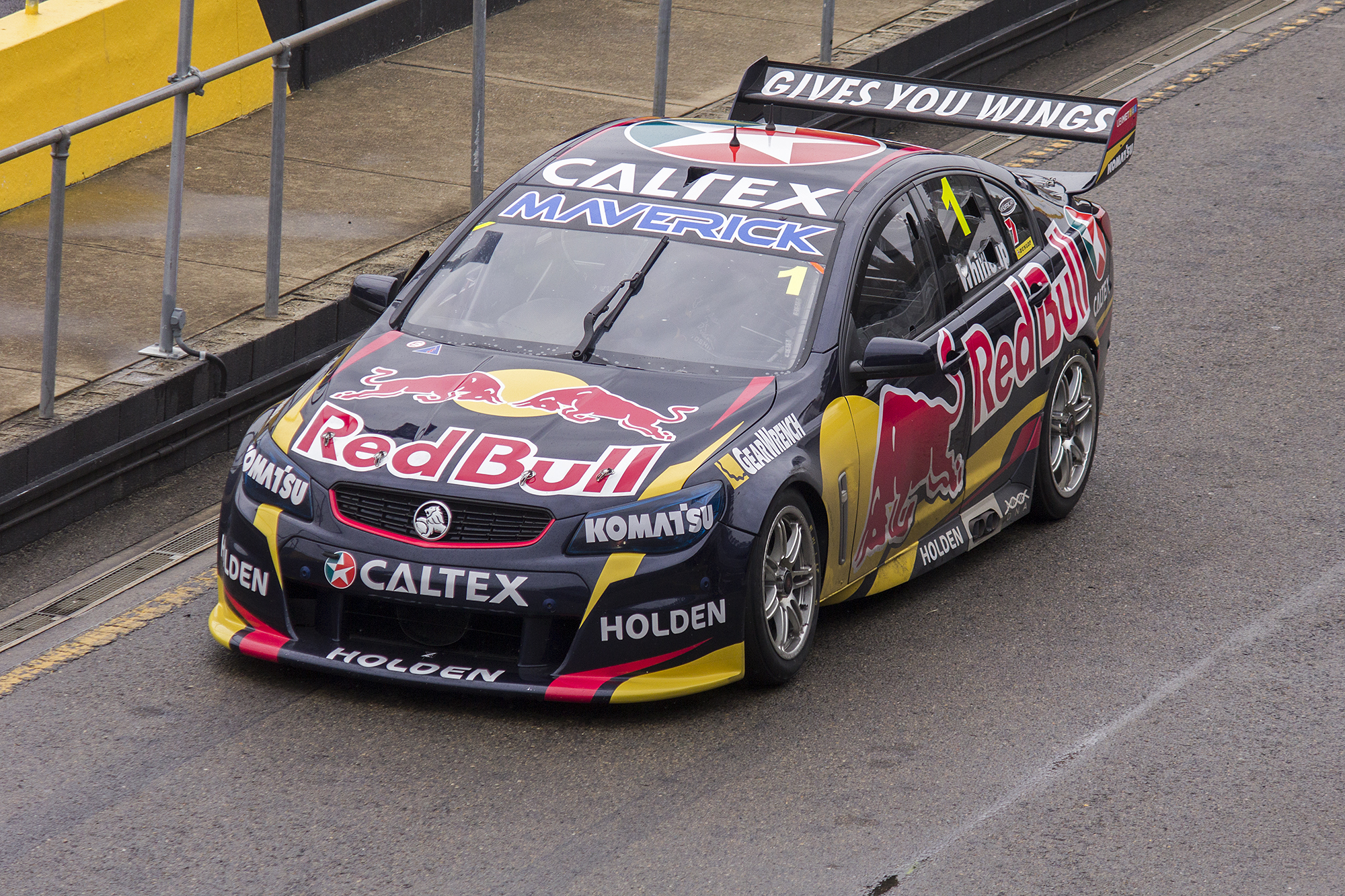 Jamie Whincup in Red Bull Racing Australia car 1, departing pitlane during the V8 Supercars Test Day at Sydney Motorsport Park.